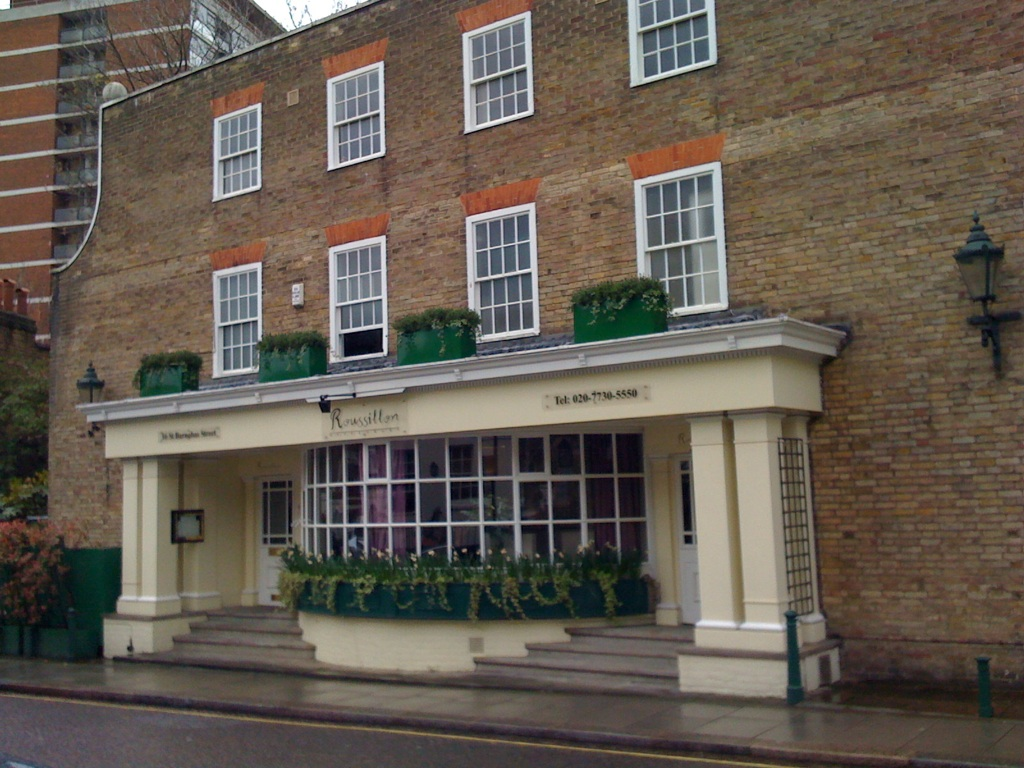 Uploaded with AirMe